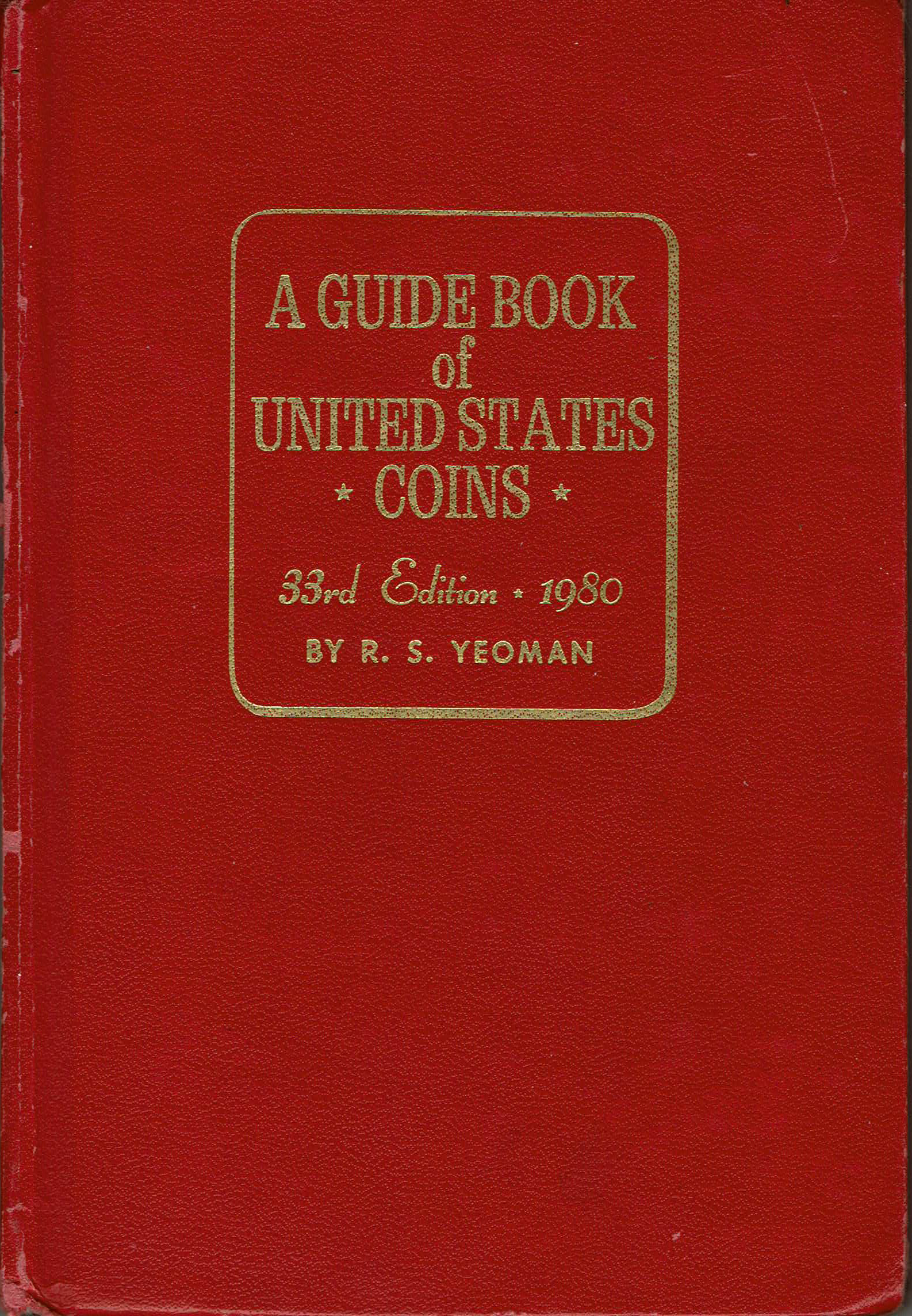 Image shows the original cover style used for A Guide Book of United States Coins (known as the "Red Book" due to its characteristic solid red color) by R.S. Yeoman. Cover shown is from the 33rd edition, published in 1979 (dated 1980).